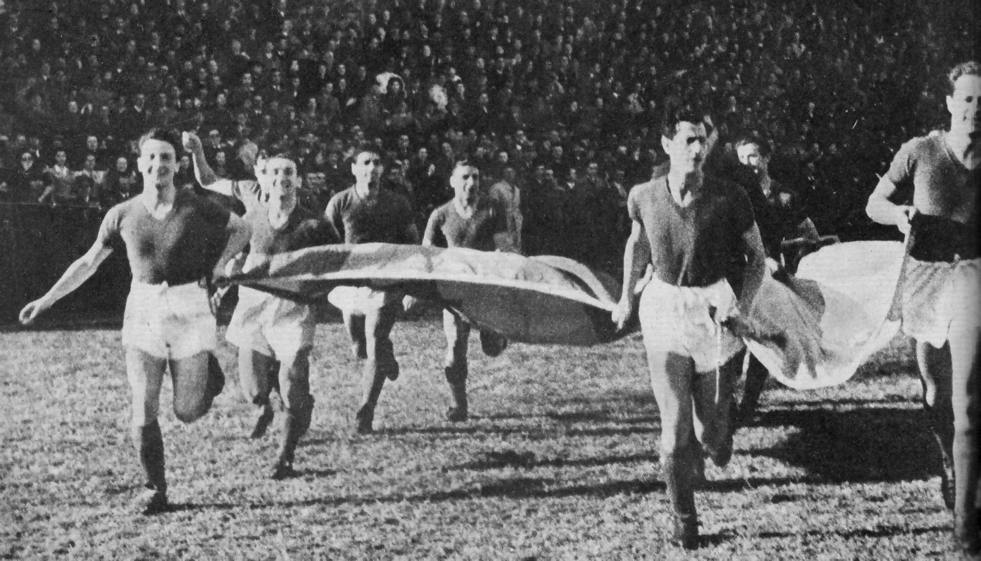 San Lorenzo de Almagro football team jumping into the field with both flags, Argentine and Spanish, before playing a match v. Spanish national team.